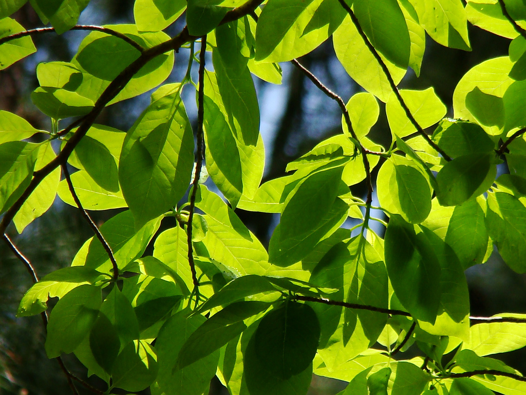 Sunlit leaves in spring with and without backlight